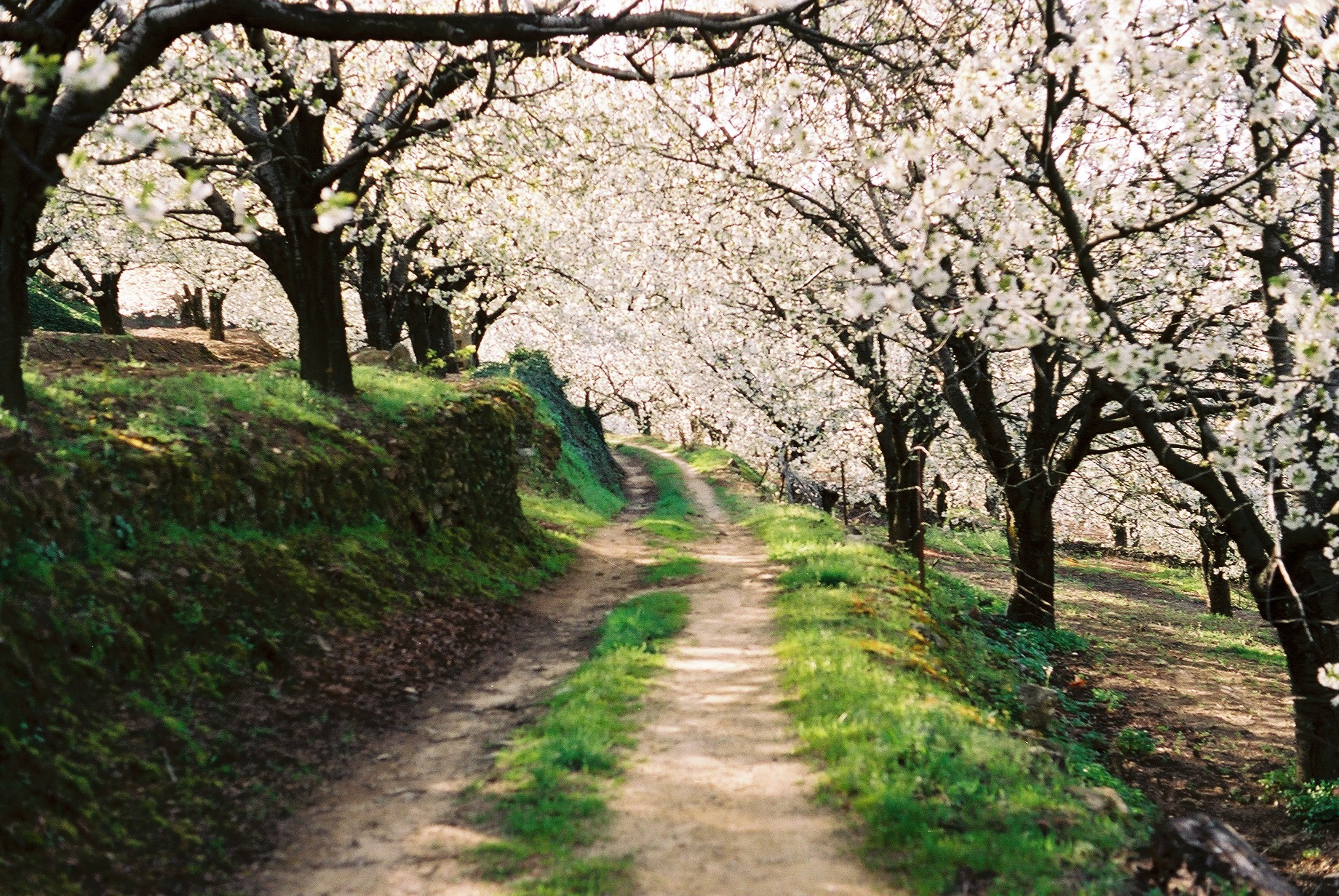 Path over cherry trees. (Jerte's Valley)